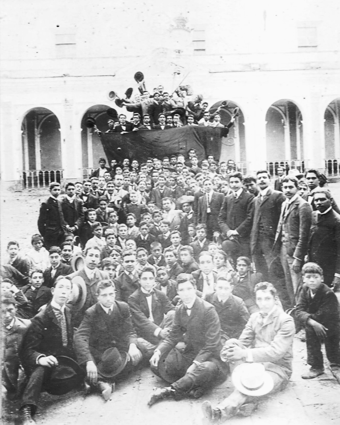 Huelga de Dolores de 1903.